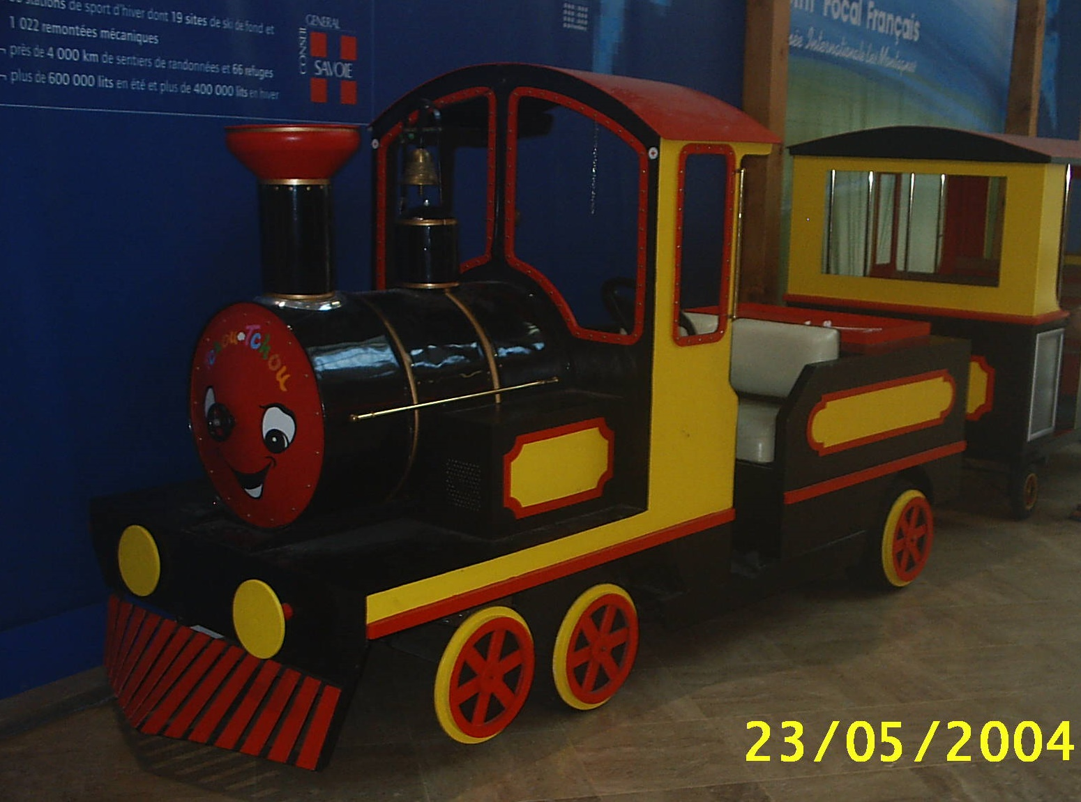 The touristic train Tchou-Tchou parked, on May 23, 2004, at the entry of the shopping mall Chamnord, in Chambéry.